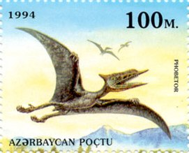 N 253 - 100 m. Ynghuanosaurus, Phobetor. (on fig. of the stamp is allocated by punching). There is continuation of drawing of the stamp on the margin of the souvenir sheet: Ynghuanosausus and omeyzaurs.